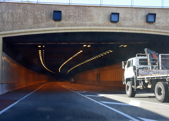 This is an image I took myself using an Olympus C8080W digital camera. It shows the west-east entrance to the Northbridge tunnel on the Graham Farmer Freeway, Perth.